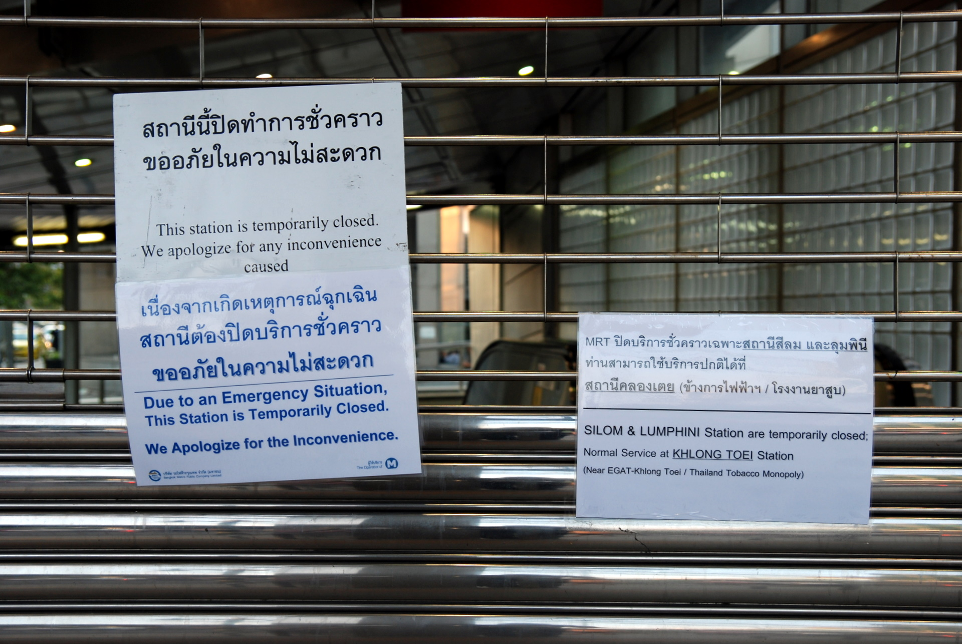 Silom and Lumpini underground stations are closed due to the unrest.